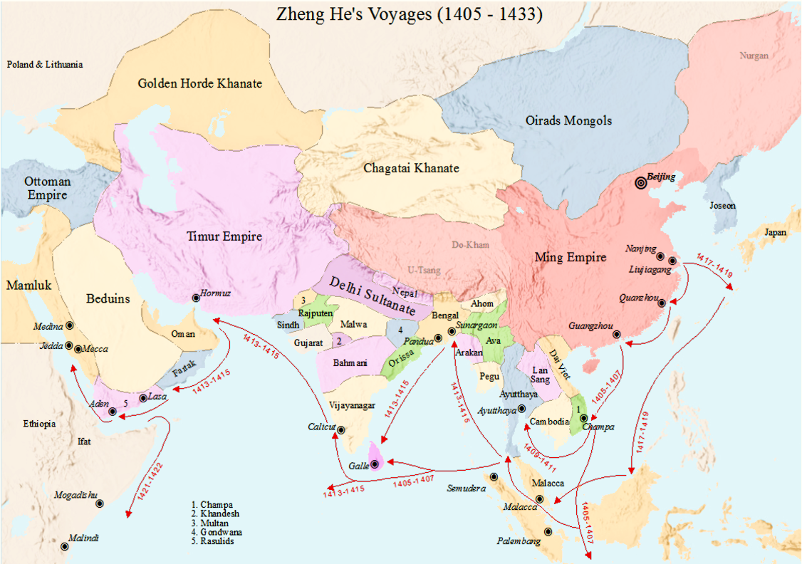 Voyages of Zheng He (1405 - 1433) during Ming Dynasty